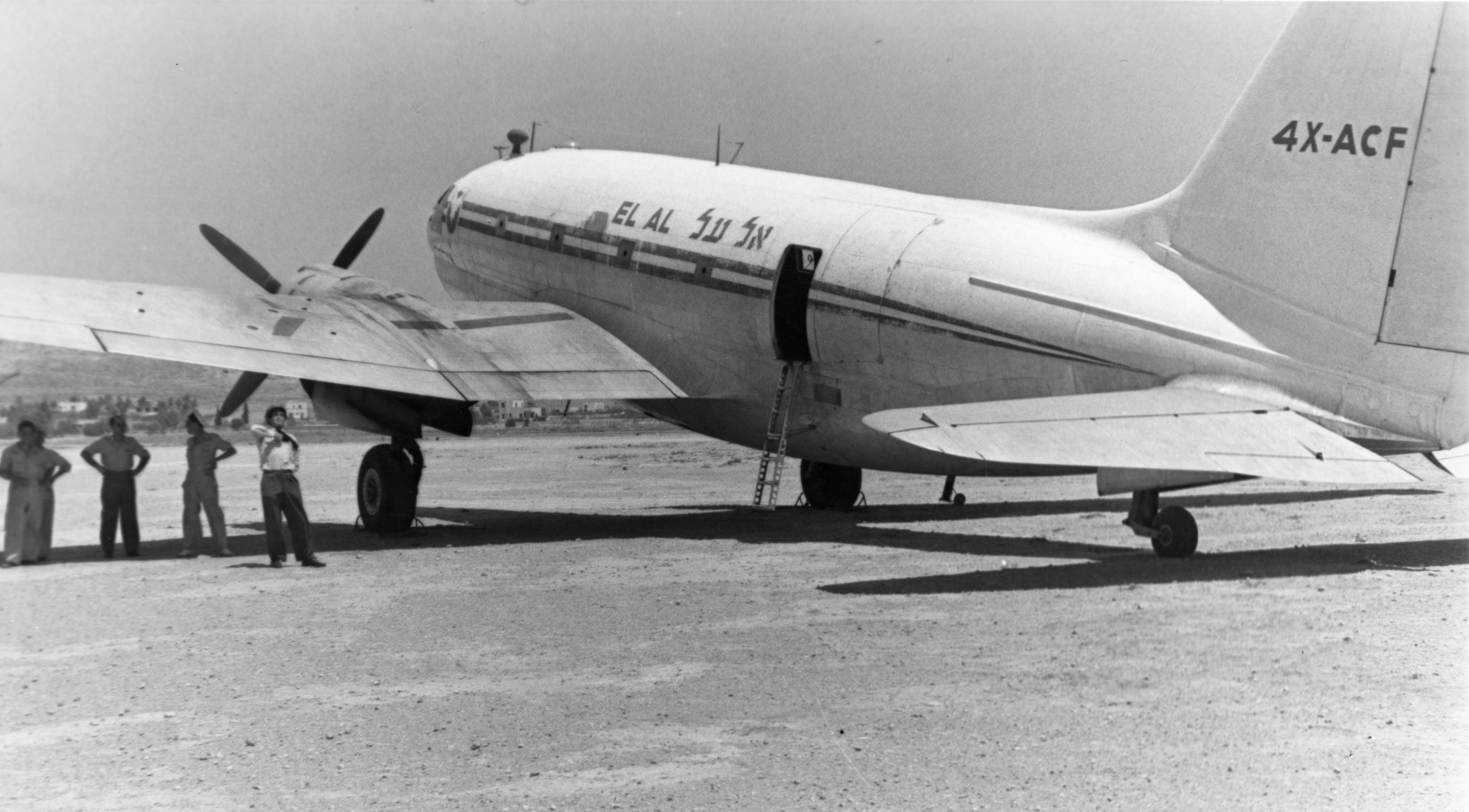 4X-ACF (later ALB). Between 1950 0124 and 1952 0514. MGGoldman Coll'n. With kind help of Marvin Goldman.